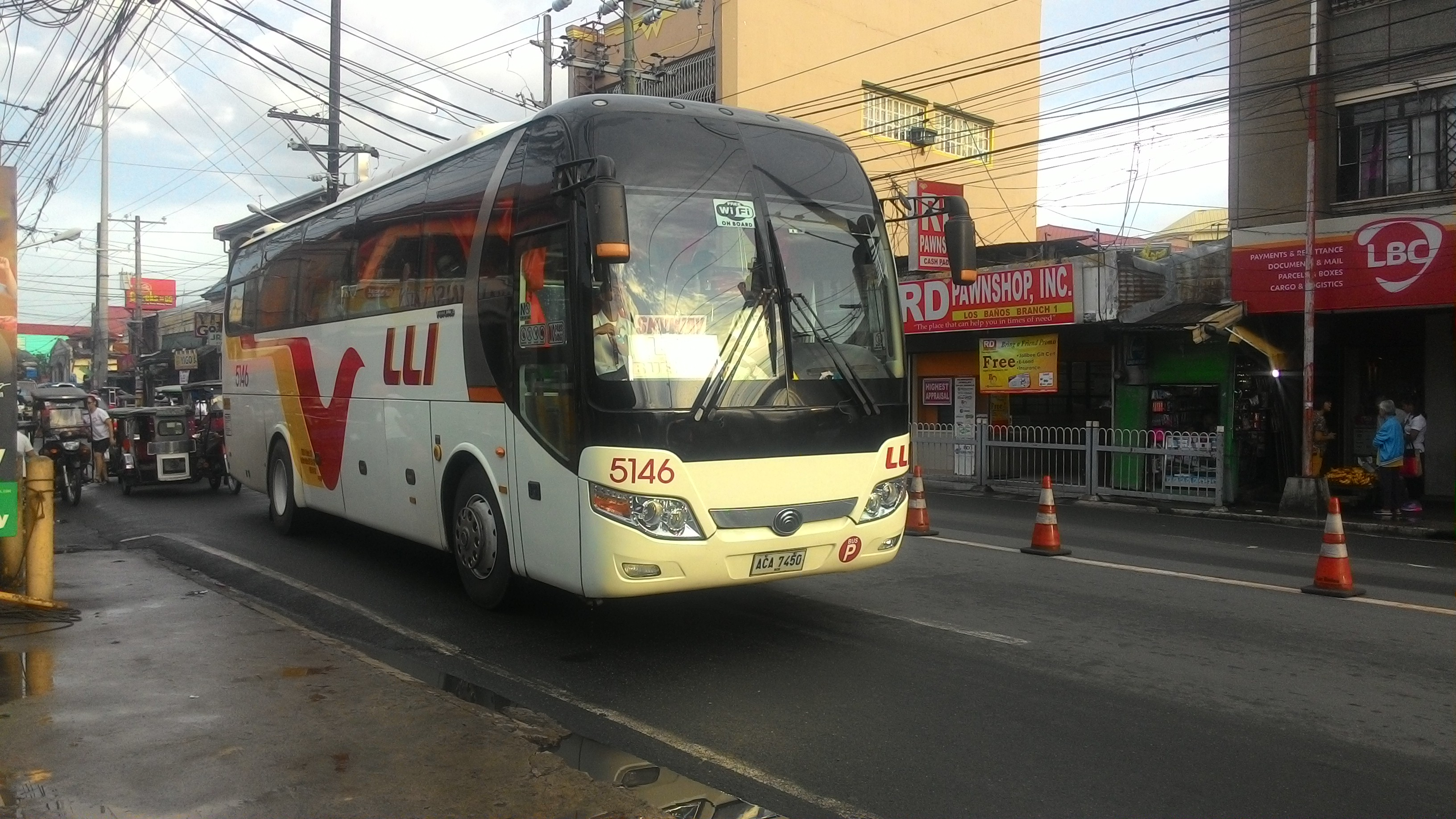 An LLI Bus heading to LRT Buendia. This was a Green Star Express Inc. bus before being renamed.